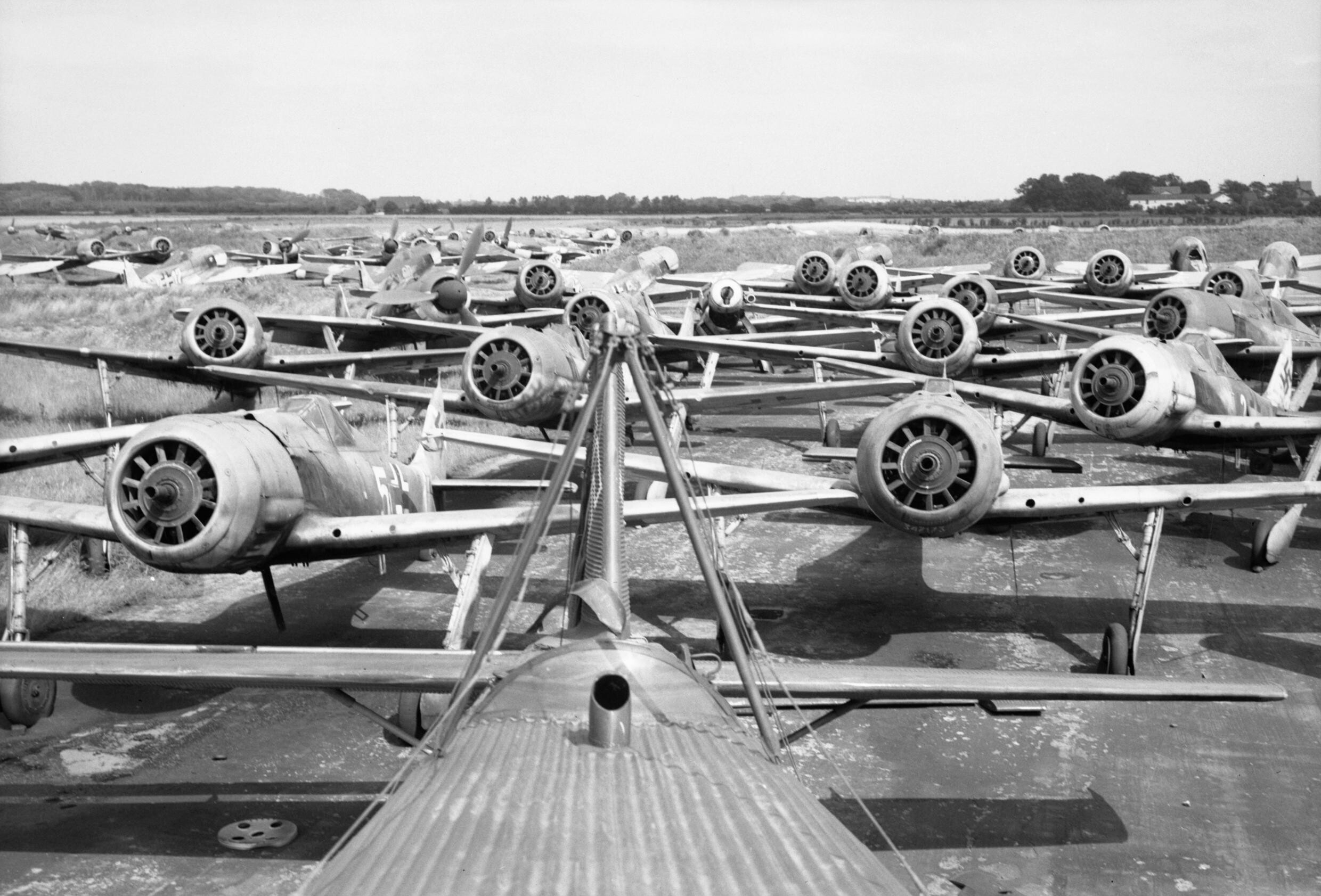 Focke Wulf Fw 190 fighters awaiting disposal at Flensburg airfield in Germany, 2 August 1945. A group of Focke Wulk Fw 190 fighters parked at Flensburg airfield awaiting disposal.